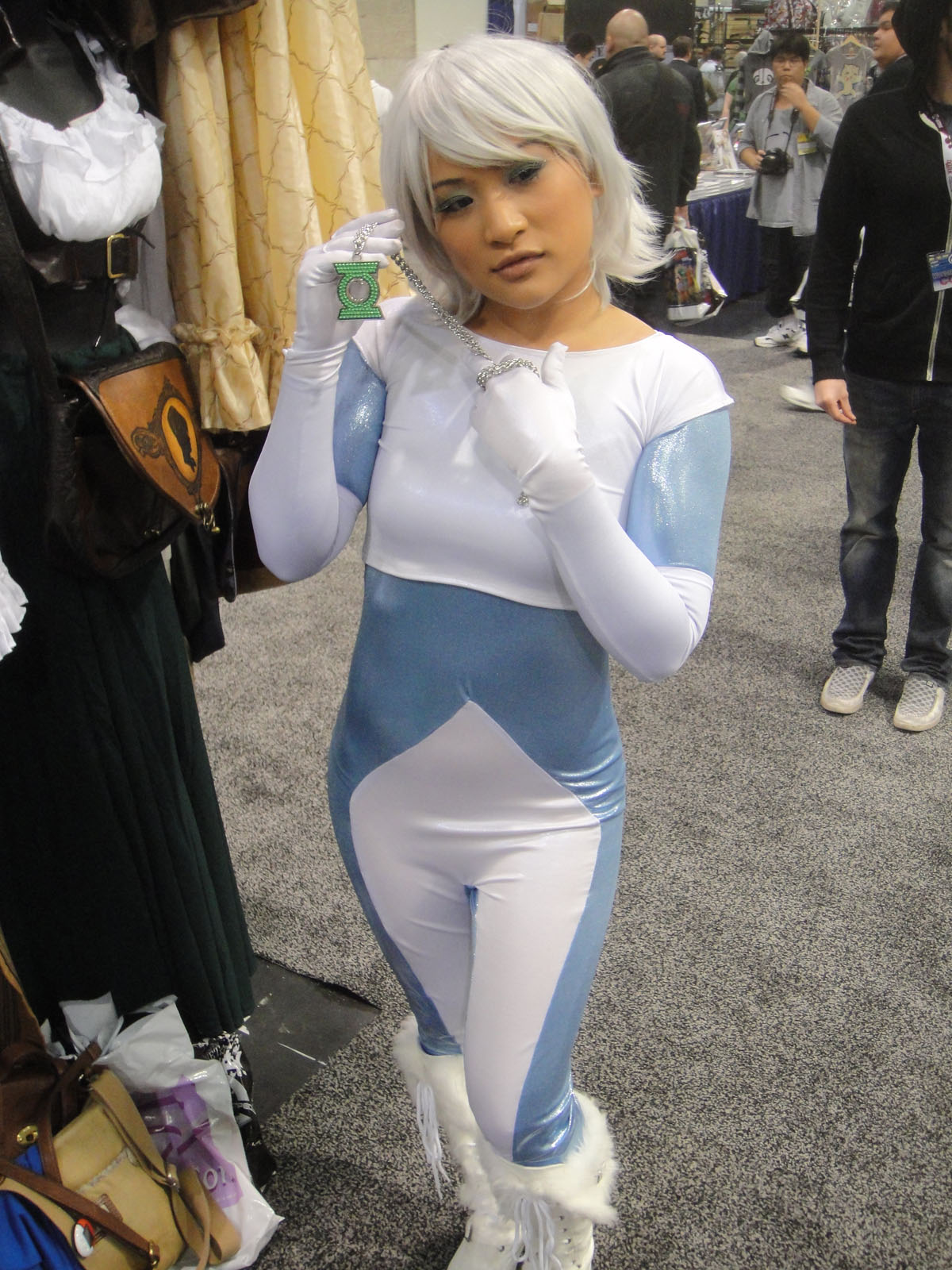 photo 2012 Pop Culture Geek taken by Doug Kline If you're interested in higher resolution versions of my images, contact me via my profile page.